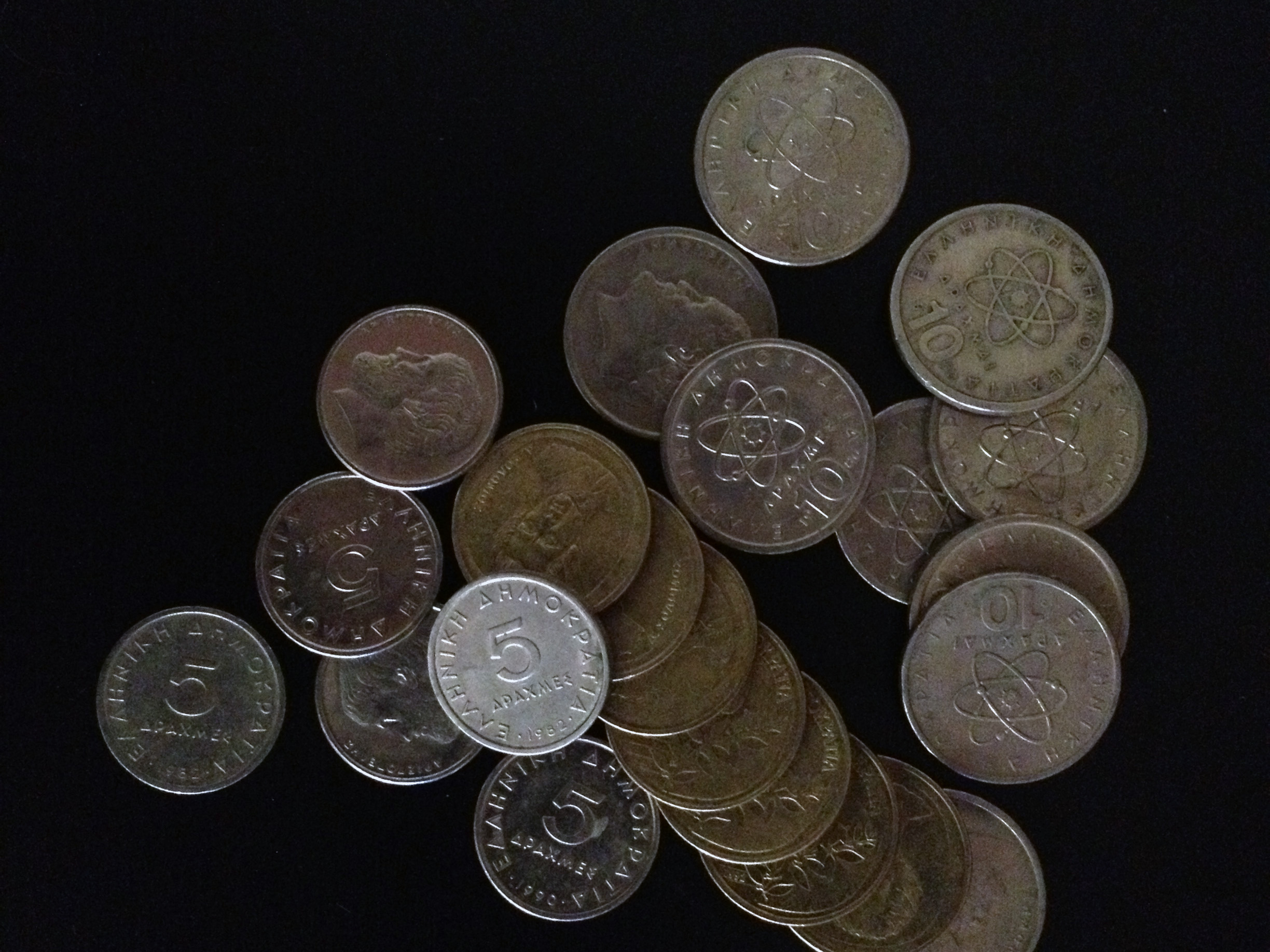 Modern greek drachma coins